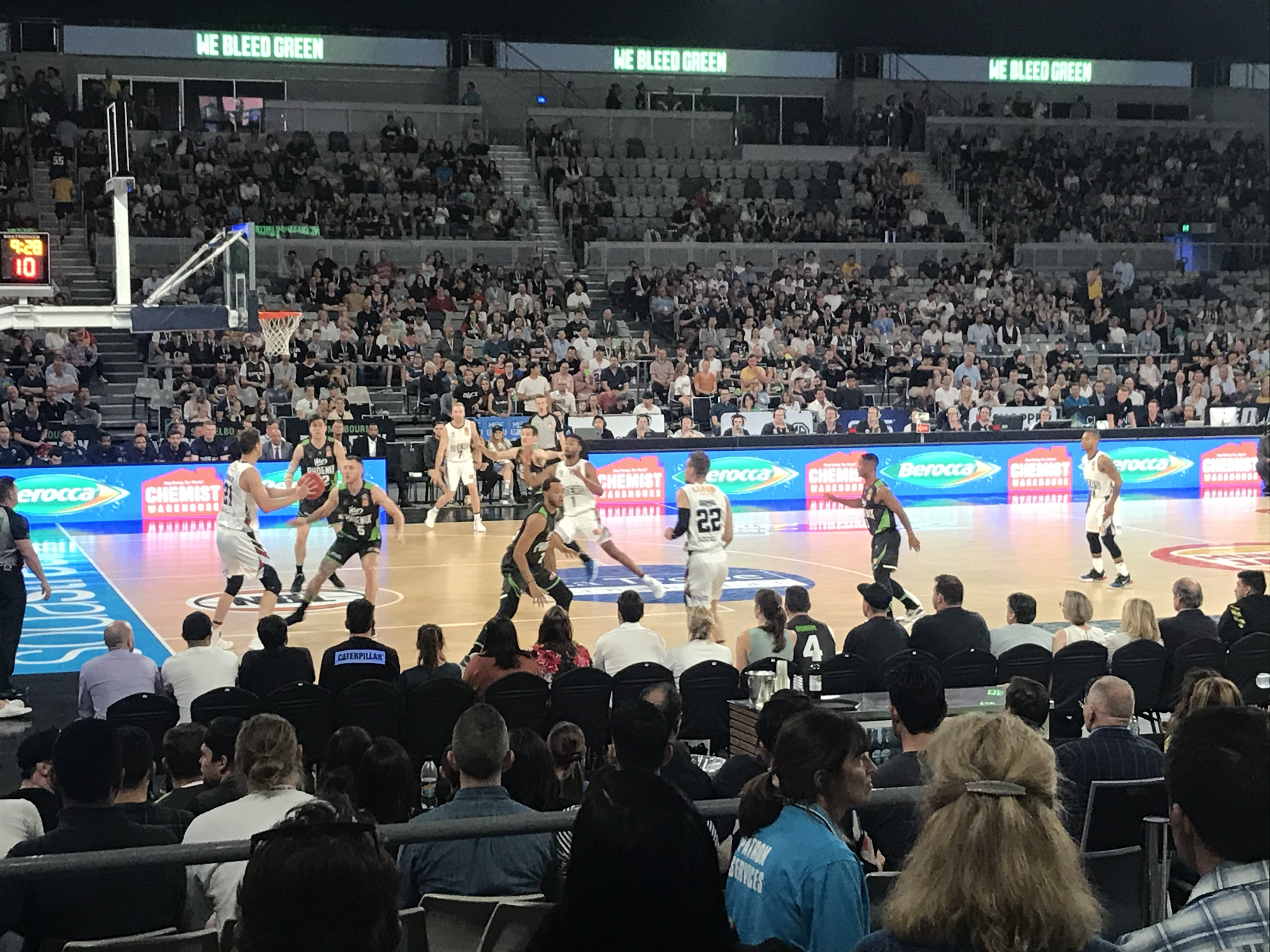 South East Melbourne Phoenix and Adelaide 36ers at Melbourne Arena.